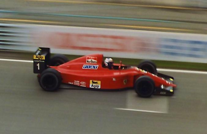 Alain Prost driving for Scuderia Ferrari at the 1990 Canadian Grand Prix.